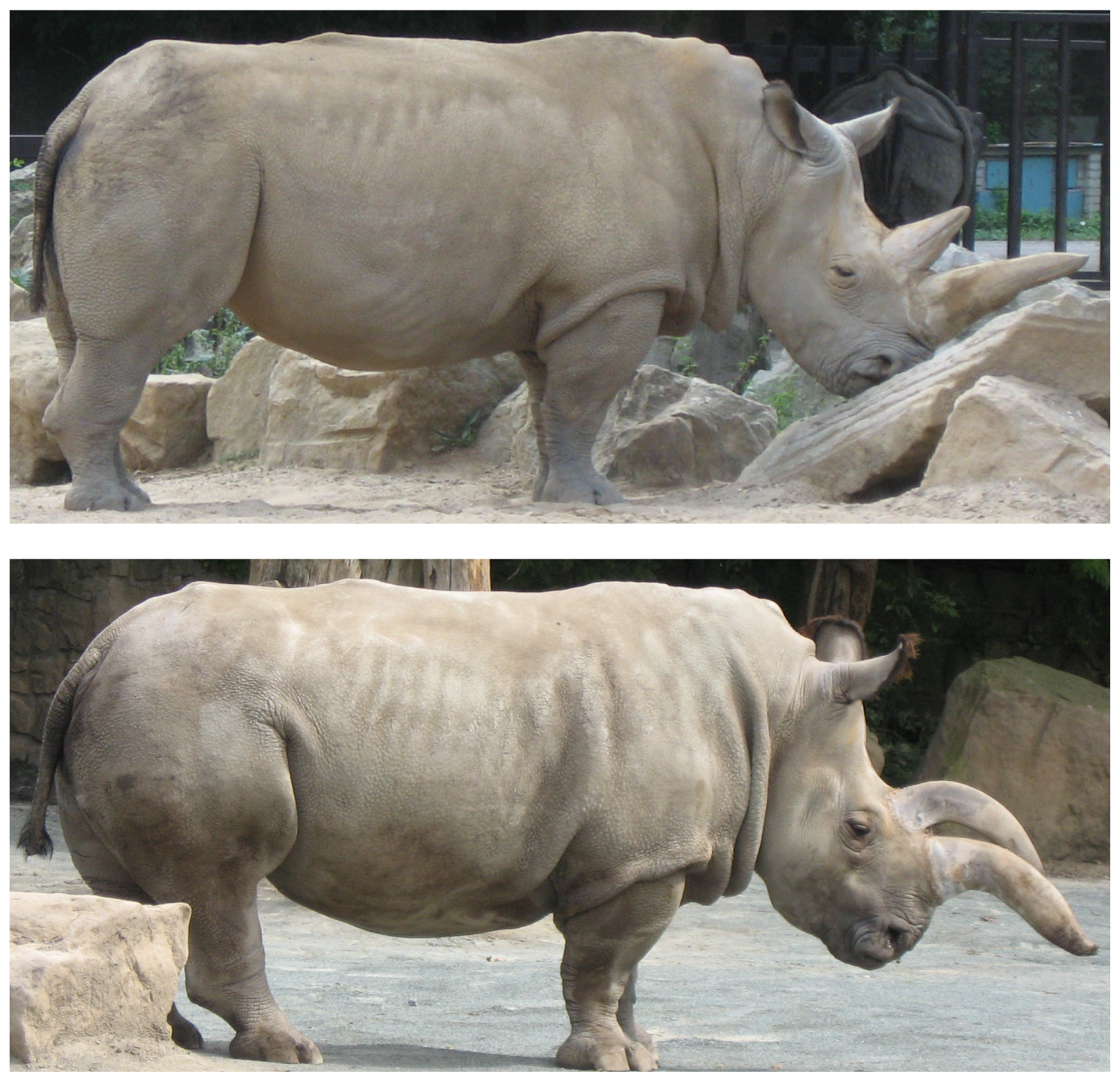 Photographs of Northern White Rhinoceros (Ceratotherium simum cottoni or Ceratotherium cottoni) published in PLoS ONE. Caption in article: "Left, Suni, male aged 27 years. Right, Nabire, female aged 24 years. Both, Dvur Kralove.".